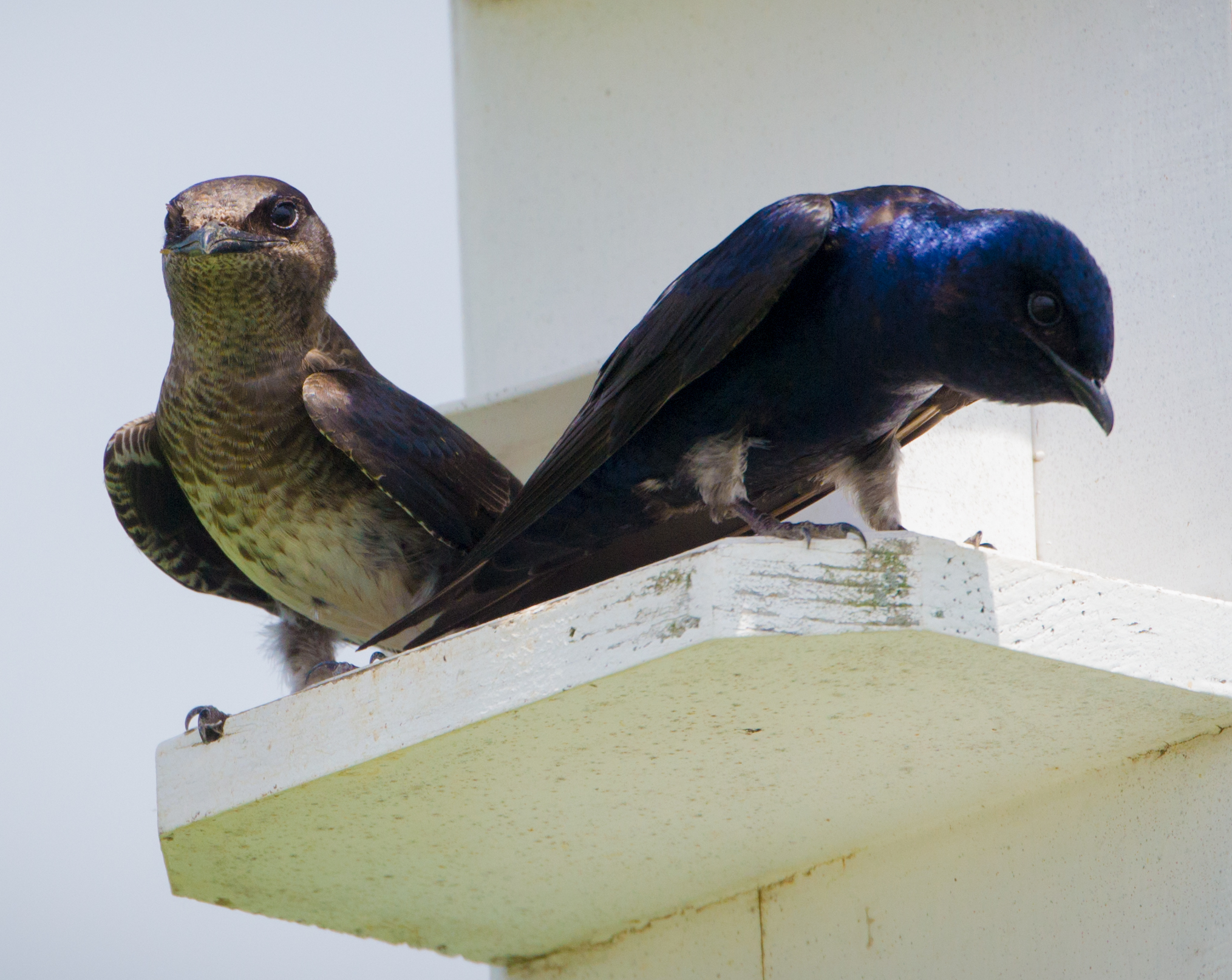 Maumee Bay State Park, Oregon, OH